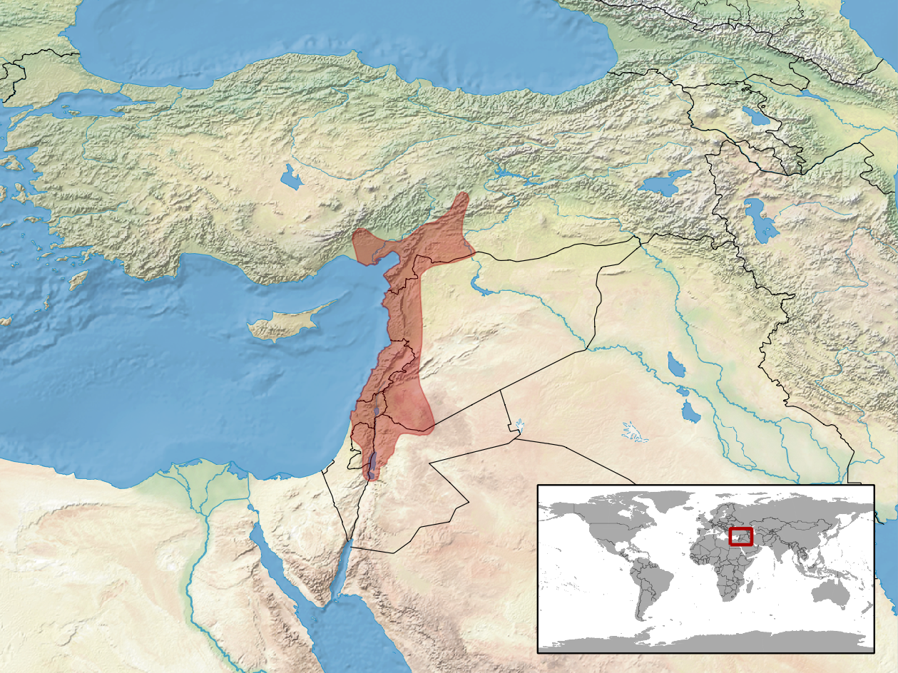 geographic distribution of Eirenis lineomaculatus (Native: Israel; Jordan; Lebanon; Syrian Arab Republic; Turkey)